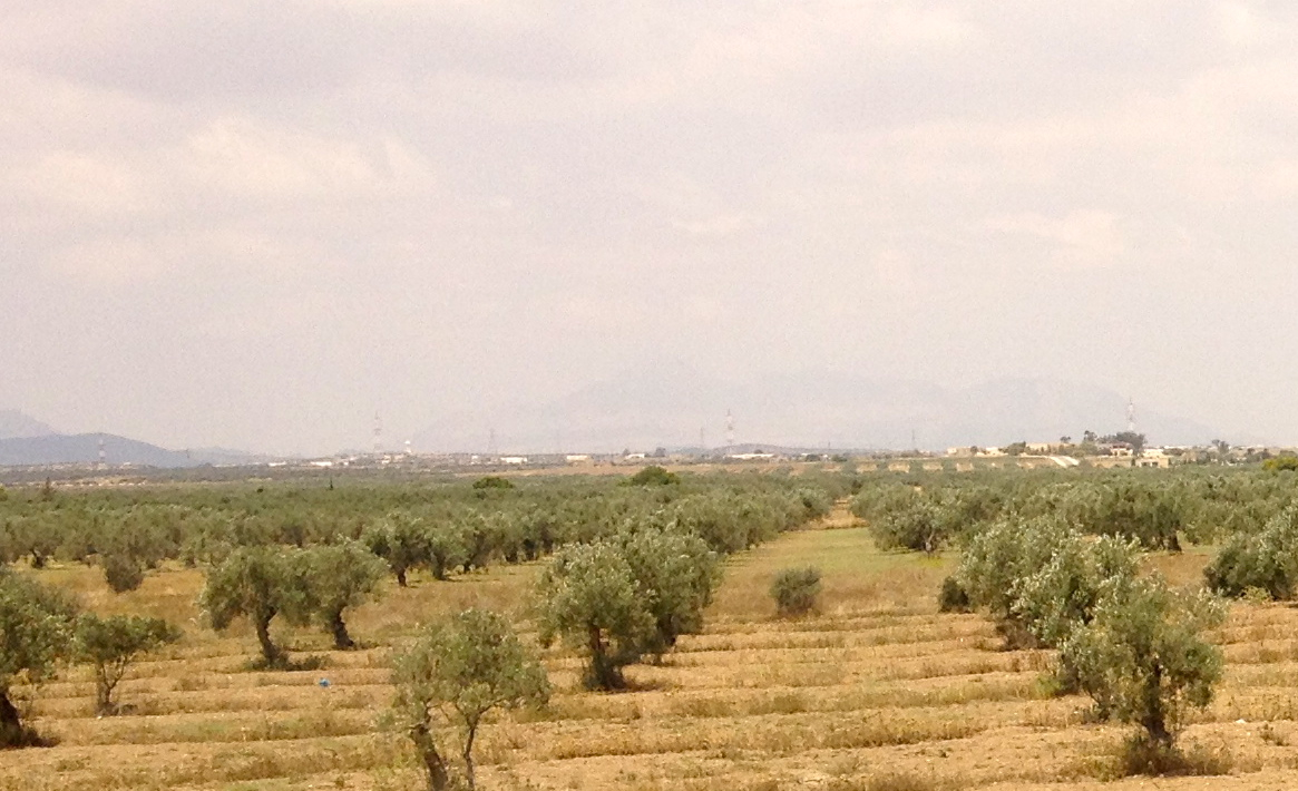 Fields near Bouficha, Tunisia